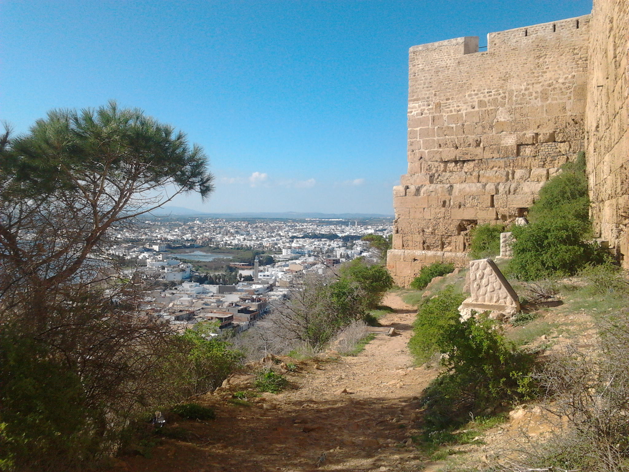 Kelibia fort